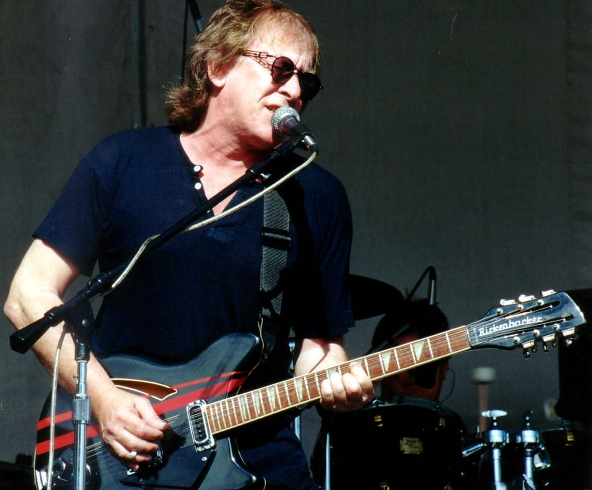 Paul Kantner performing in concert in Hallandale, Florida.